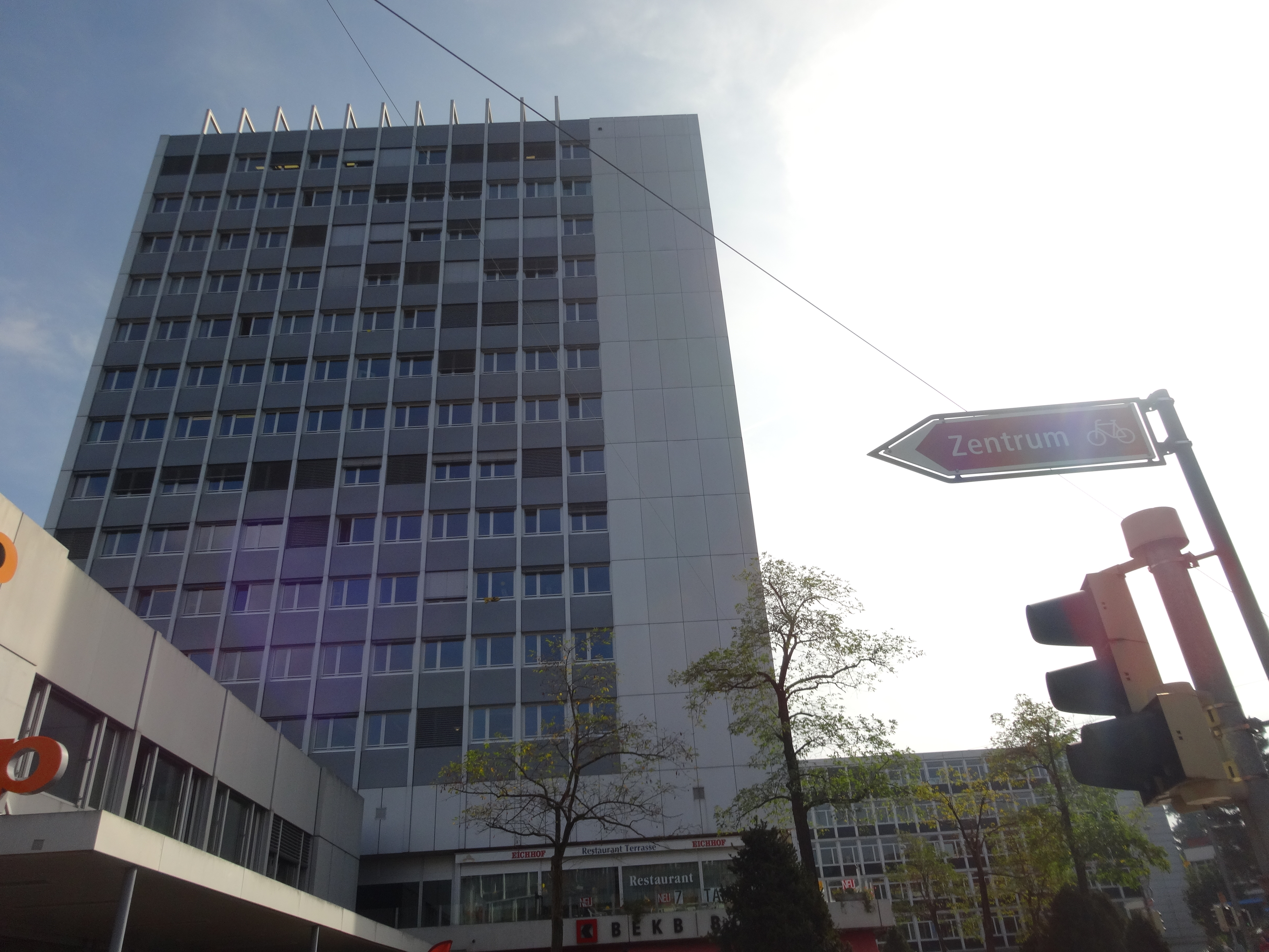 Embassy of Chile in Bern, Switzerland.